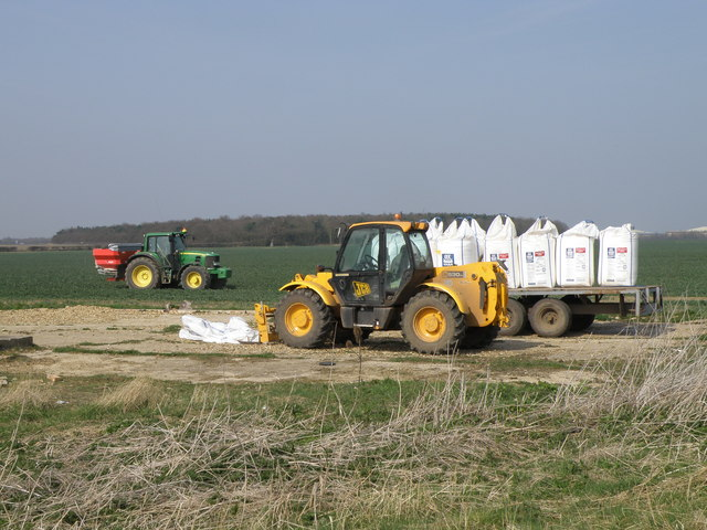 Fertiliser application to Oil Seed Rape. 46% granular Urea fertiliser (Yara) being applied to a crop of oil seed rape between the A1 and New Road.